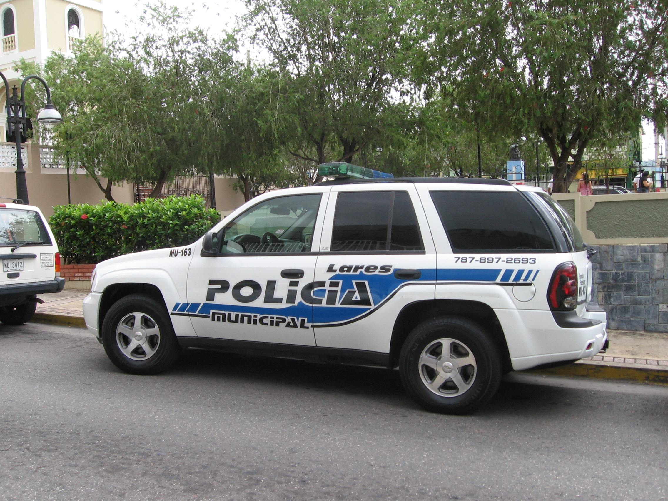 Lares PD